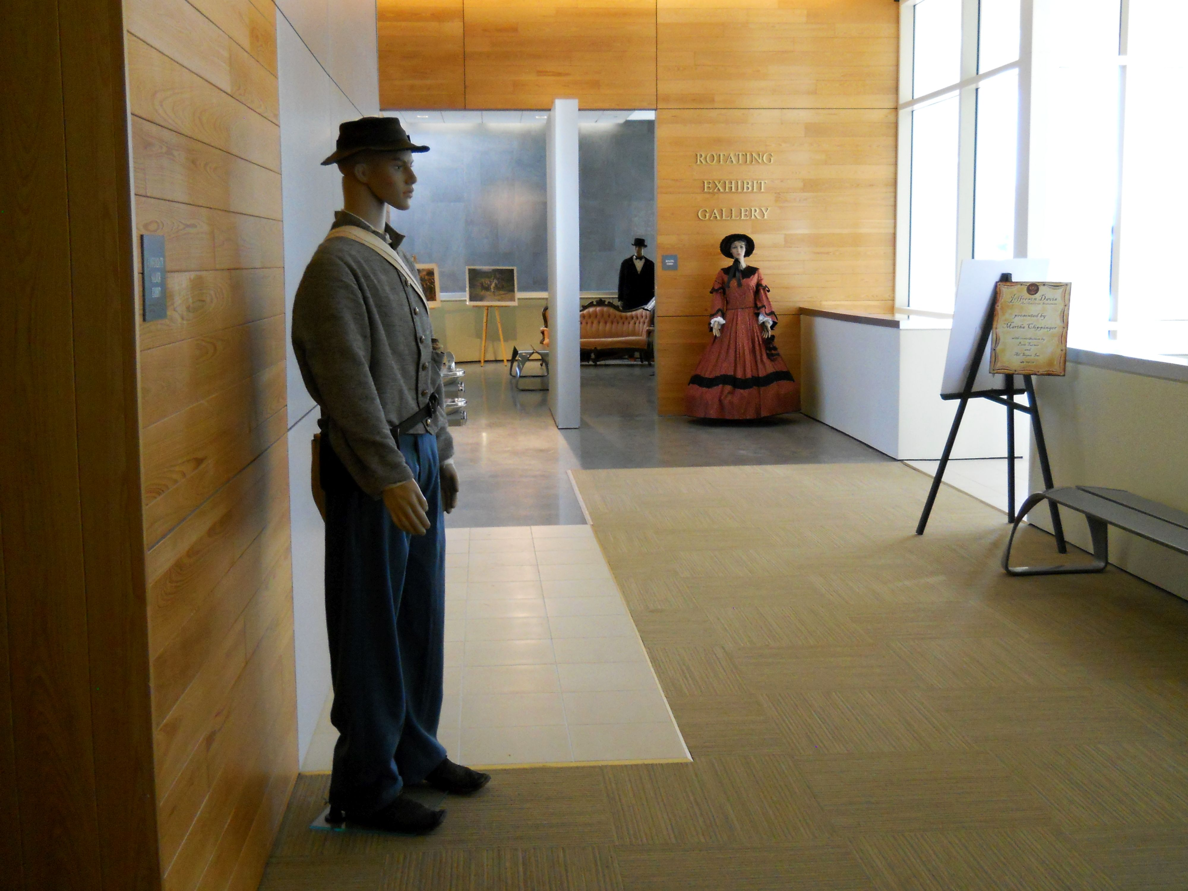 Confederate-era exhibits on display in the Jefferson Davis Presidential Library & Museum, Biloxi, Mississippi, USA